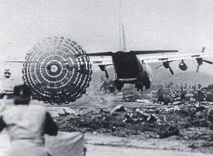 Supplies being dropped into the base during the siege of Khe Sanh. Original caption: "Khe Sanh, Vietnam" from License: Information presented on The Army Home Page is considered public information and may be distributed or copied unless otherwise specified. Use of appropriate byline/photo/image credits is requested.